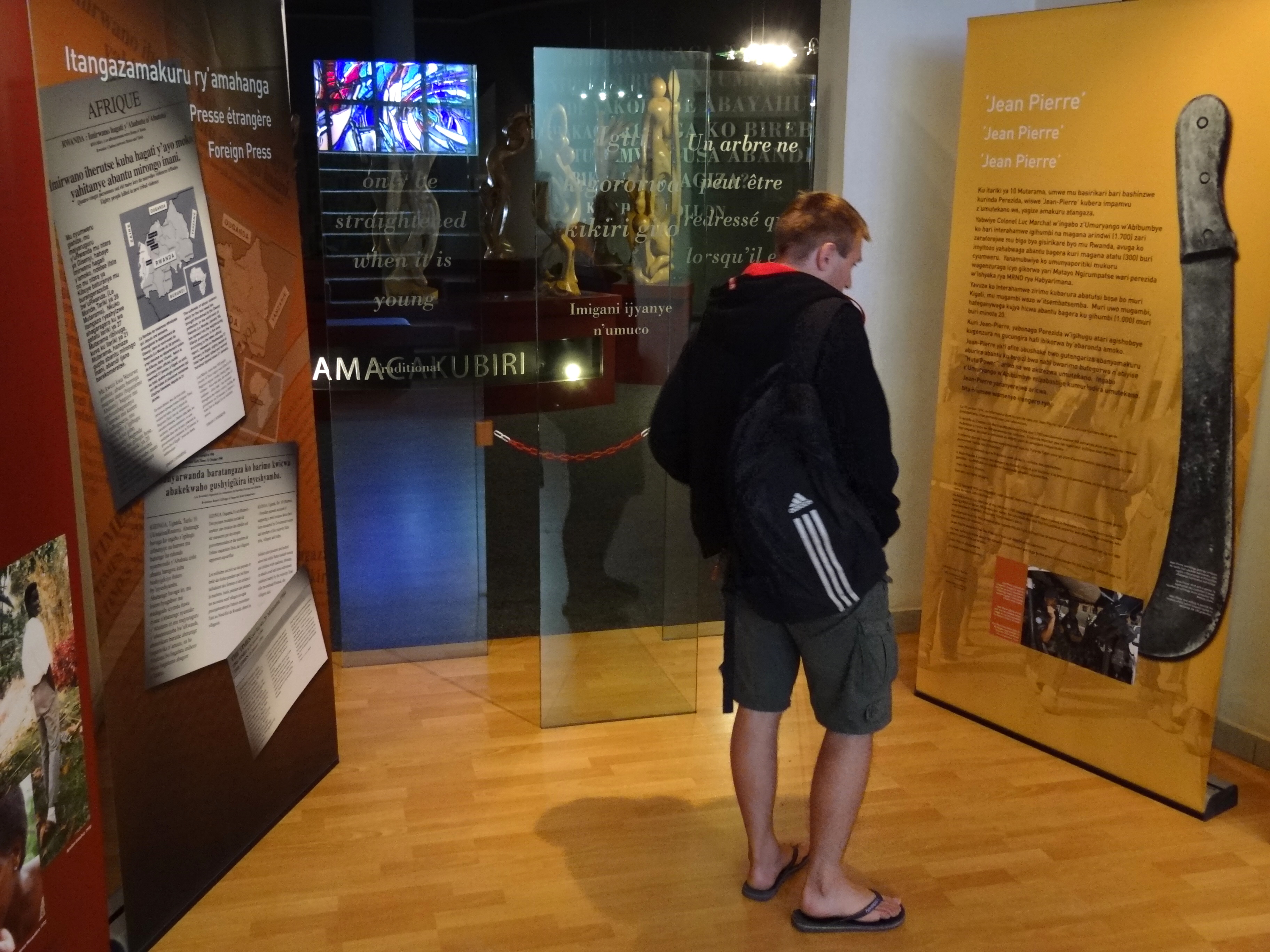 Visitor Views Exhibits at Genocide Memorial Center - Kigali - Rwanda